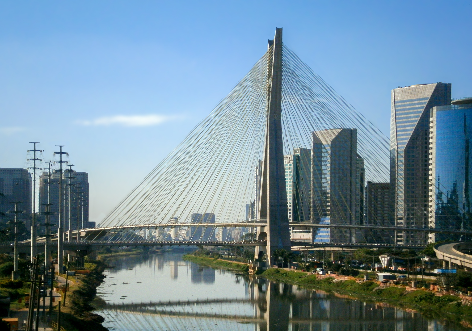 Sao Paulo Bridge